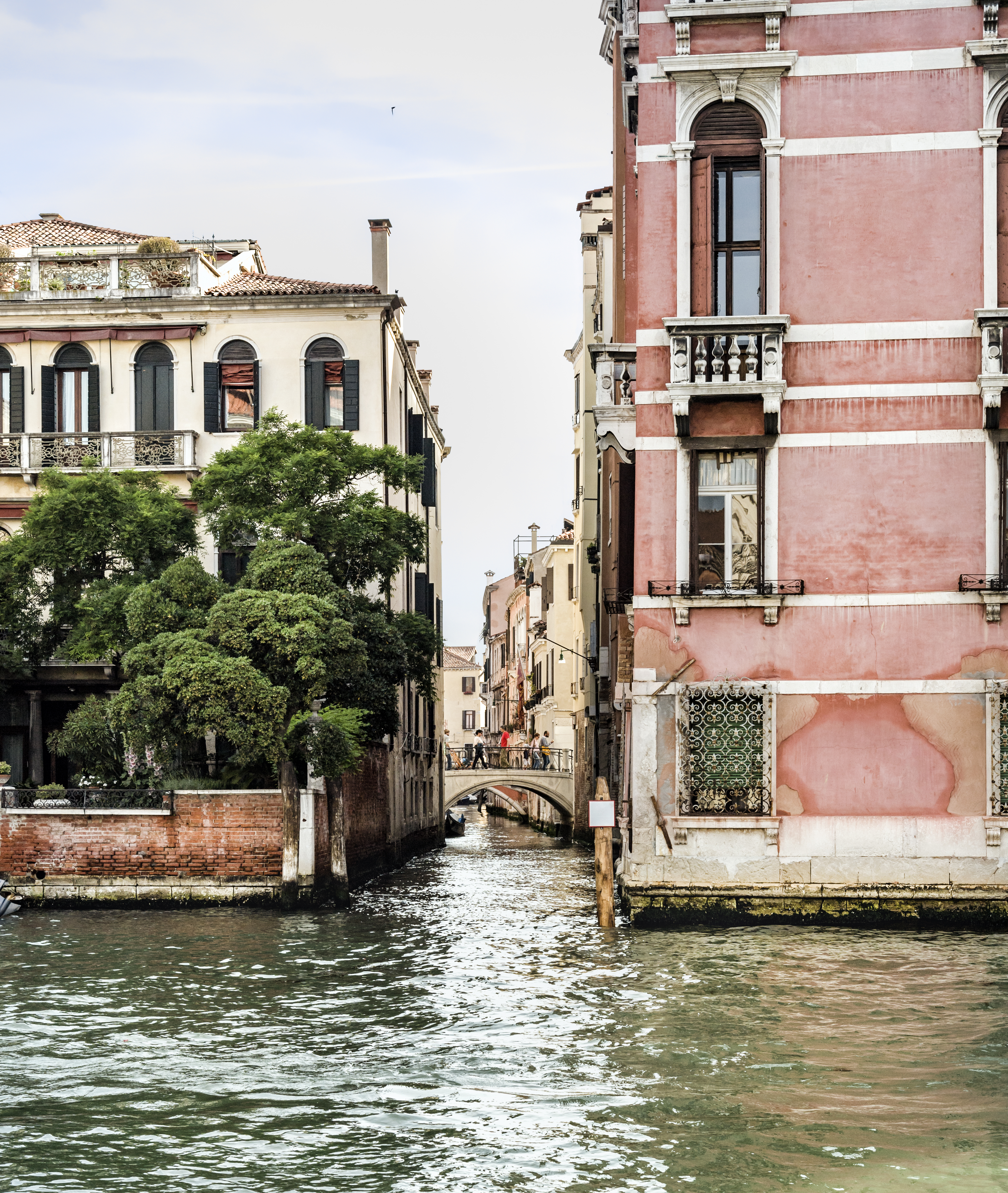 The Rio di San Felice in Venice, seen from the Grand Canal.